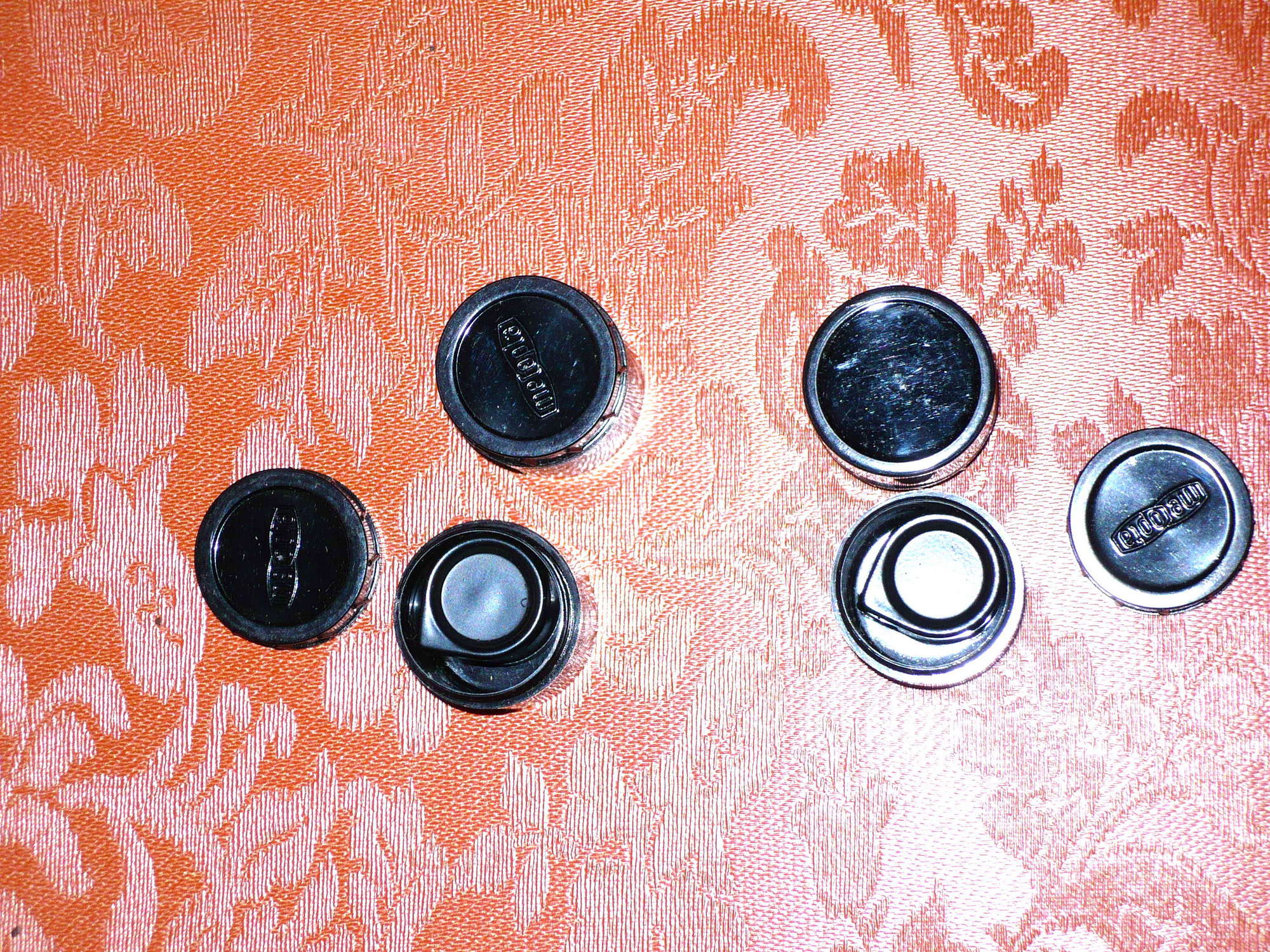 Mikroma cassette with case